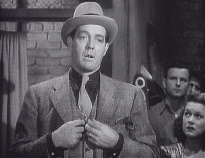 Cropped screenshot of Frank Fenton from the film Lady of Burlesque.